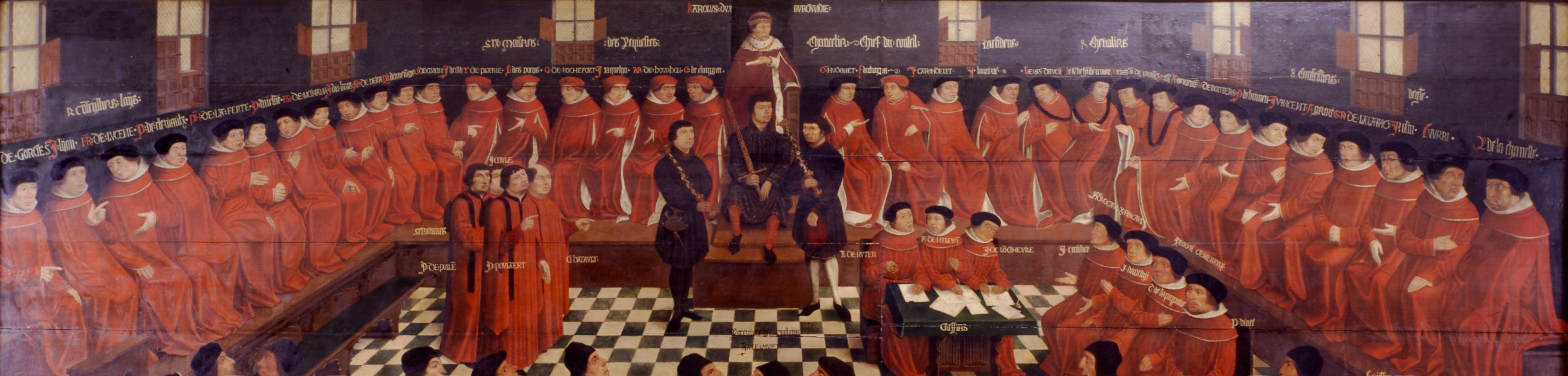 Plechtige openingszitting van het Parlement van Mechelen onder Karel de Stoute, Hertog van Bourgondië, op 3 januari 1474, in het Schepenhuis te Mechelen